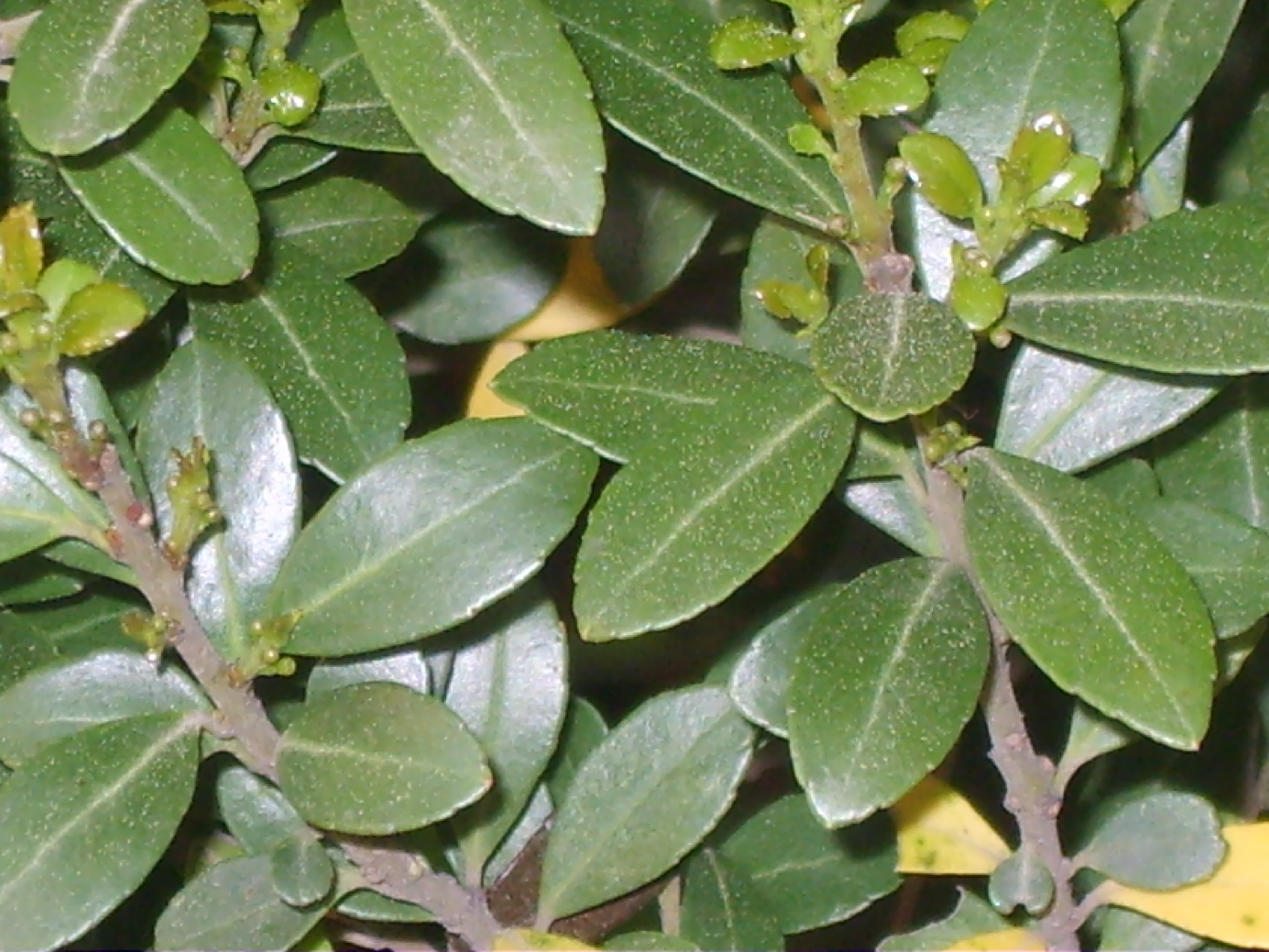 Ilex crenata's foliage in Hampyung Korea. 함평자연생태공원에 사는 꽝꽝나무 잎.